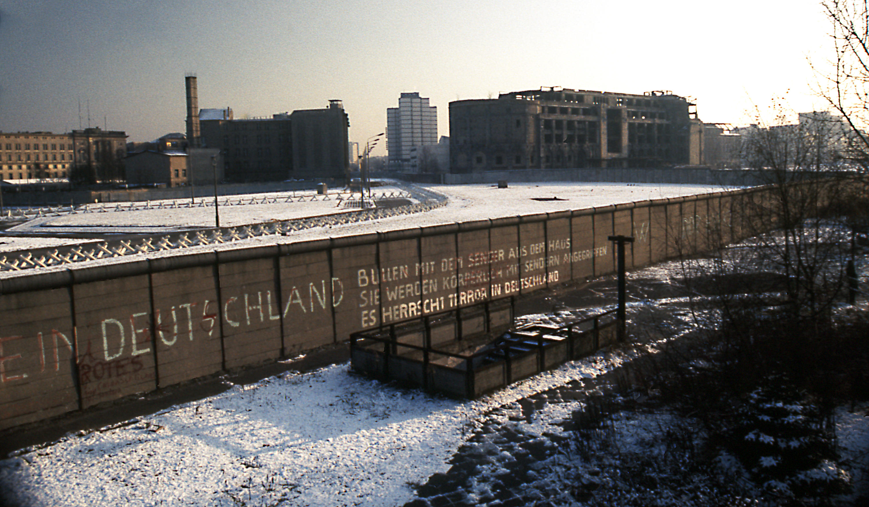 Berlin Wall at the Potsdamer Platz 1975 looking southeastwards into Stresemannstraße. To the very left the rear wing of the Preußisches Herrenhaus, mid-left are mostly buildings on the Stresemannstraße, such as the bldg Stresemannstraße 128 (with firewall and watch tower on the roof), to the right "Haus Vaterland". In front of the Wall is the entrance to the Potsdamer Platz subway-station (abandoned at that time).